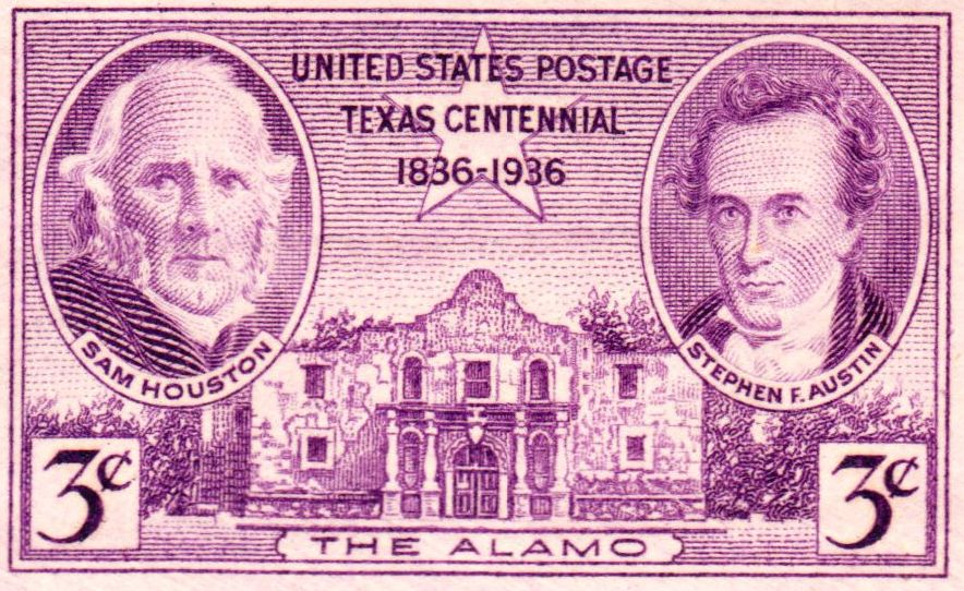 Alamo_1936_Issue-3c.jpg